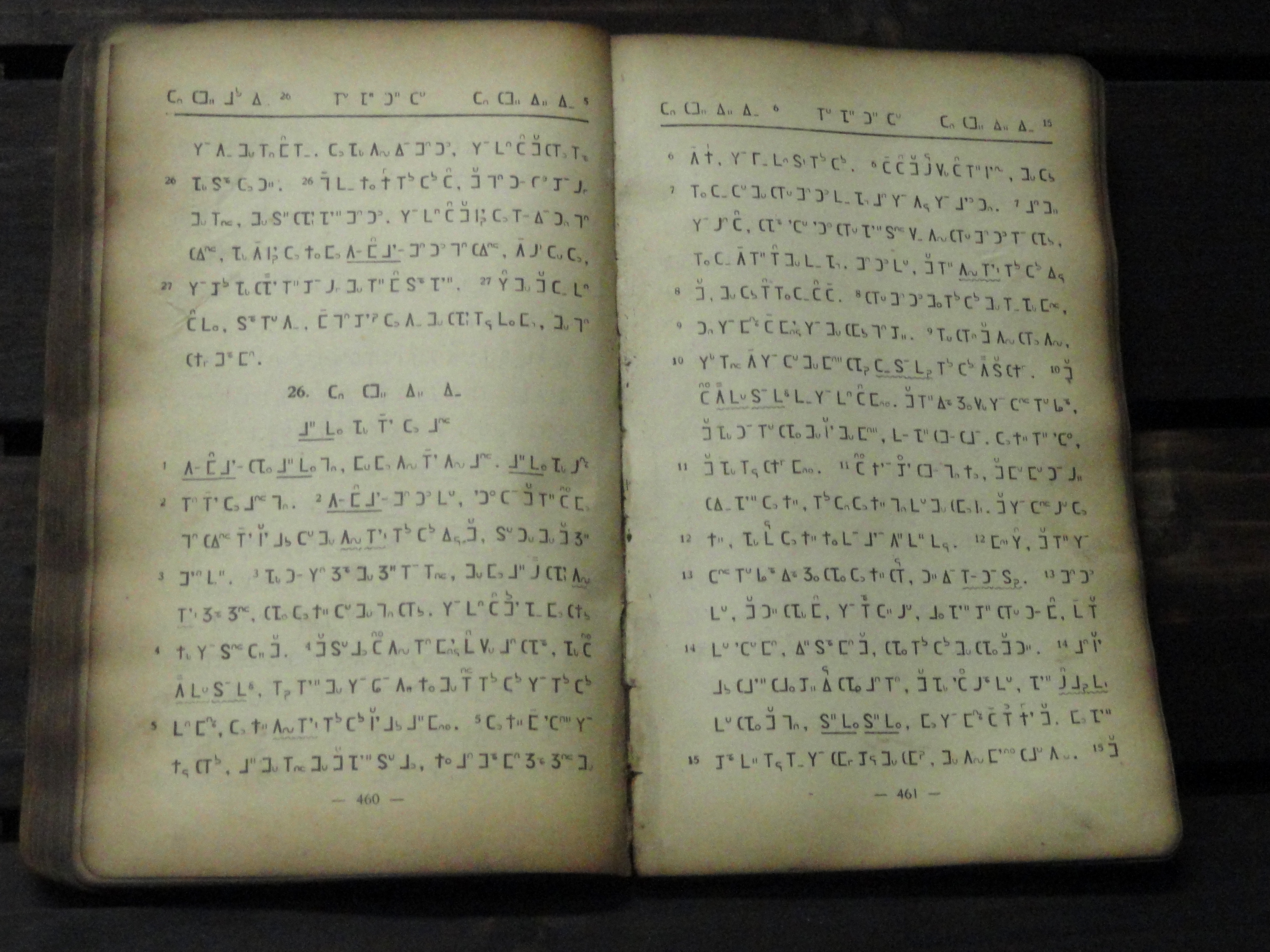 Miao manuscript. Manuscripts / writing systems in the Yunnan Nationalities Museum, Kunming, Yunnan, China.